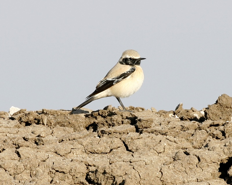 Oenanthe deserti adult winter. Little Rann of Kutch, Gujerat, India.